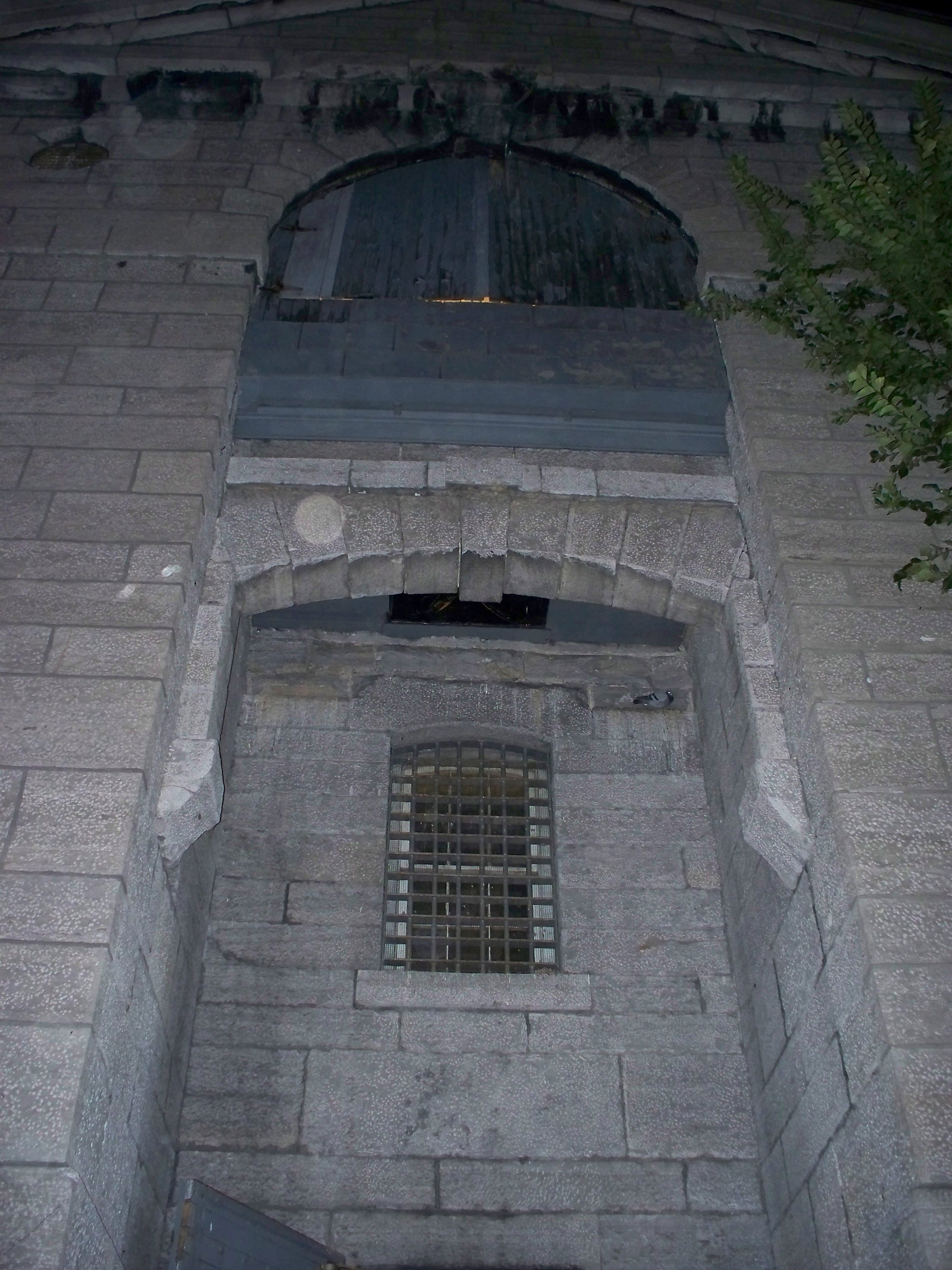 A view of the gallows (with closed doors) of Nicholas Street Gaol (now Ottawa Jail Hostel) in Ottawa, Ontario, Canada, from within the gaol's exercise yard. Note the trap door above the window.